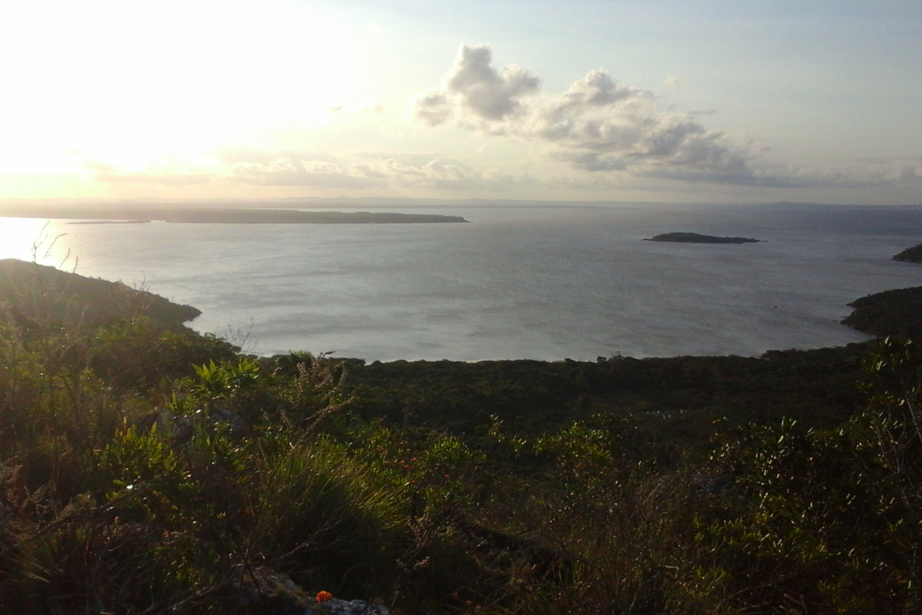 Protected area named Parque Estadual de Itapuã, located in southern Brazil, near Porto Alegre city.